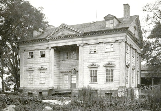 The Apthorp mansion, residence of Charles Ward Apthorp, merchant and member of Governor's Council in New York, 1763-1783.